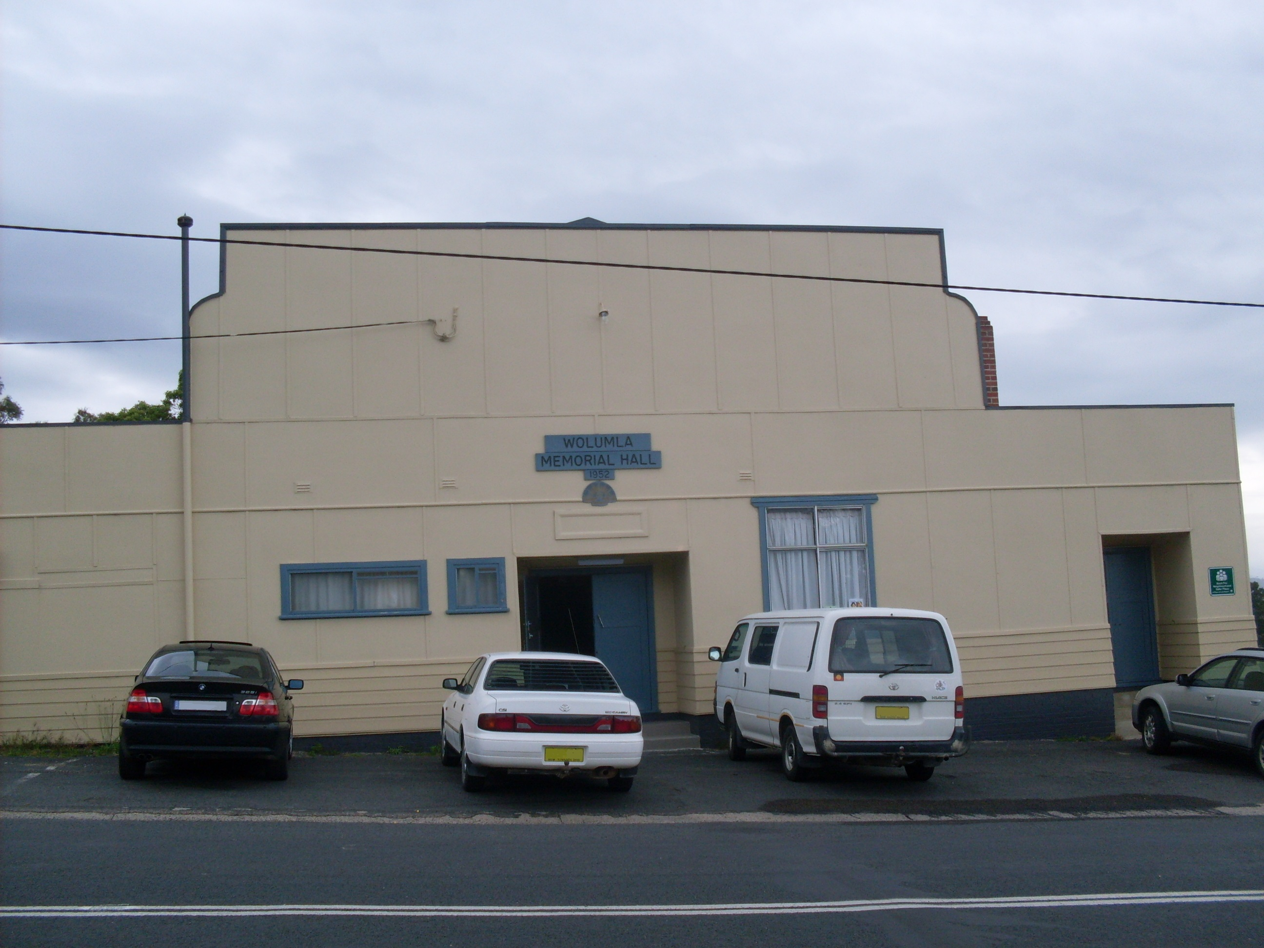 Wolumla Memorial Hall, Candelo Wolumla Road, Wolumla, NSW